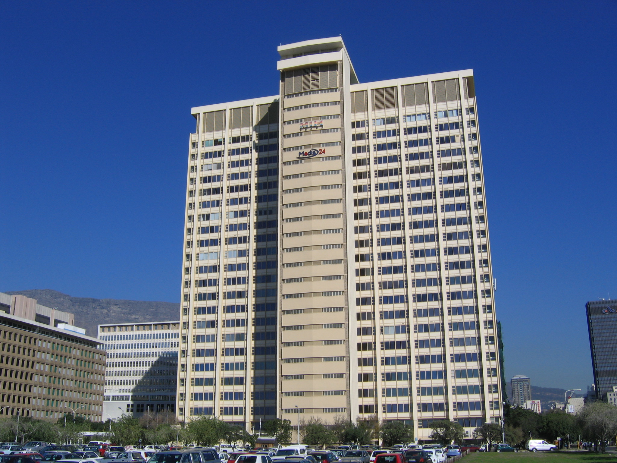 Naspers building in Cape Town, South Africa.